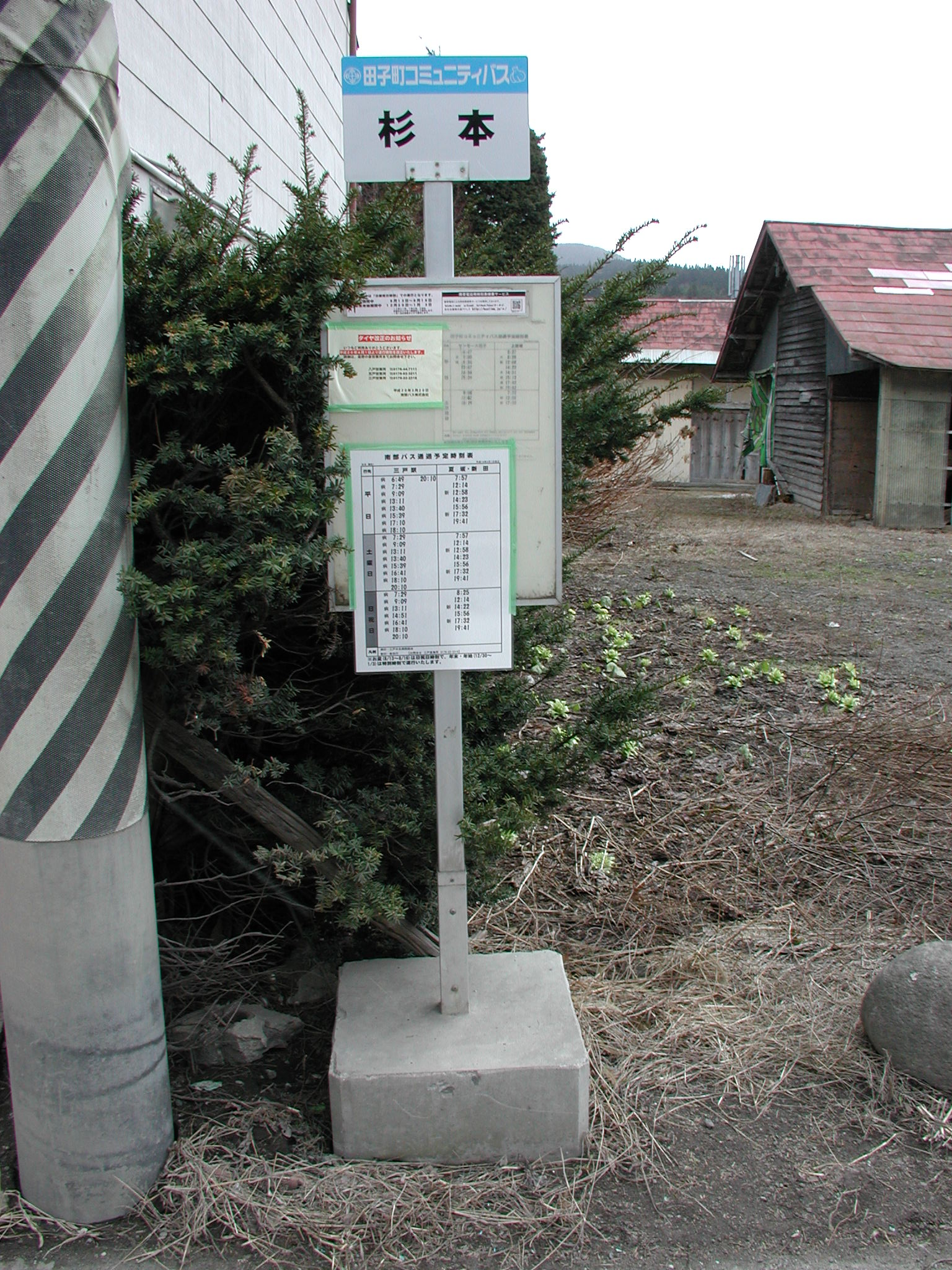 Bus pole for the Takko Town Community Bus Sugimoto Bus Stop